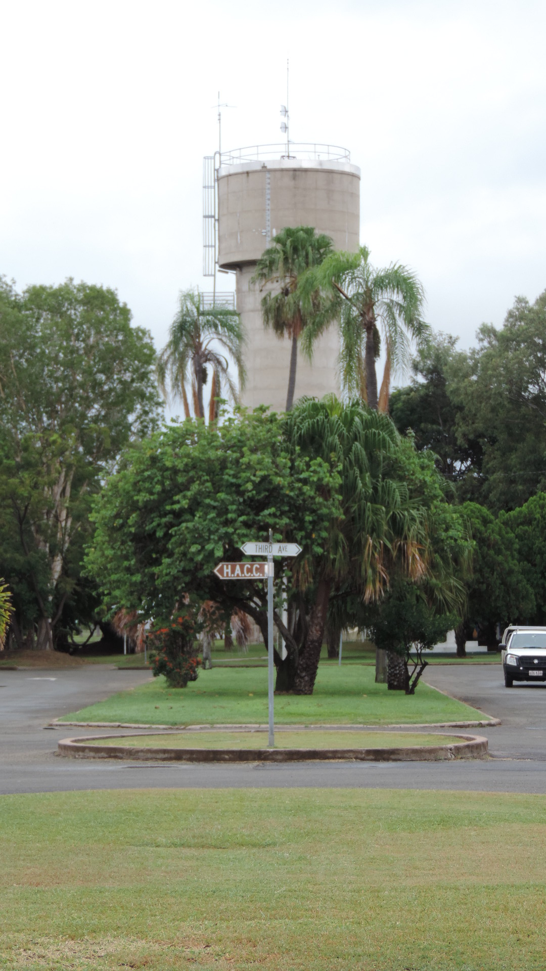 Water tower in the roundabout on The Boulevard, Theodore, 2014